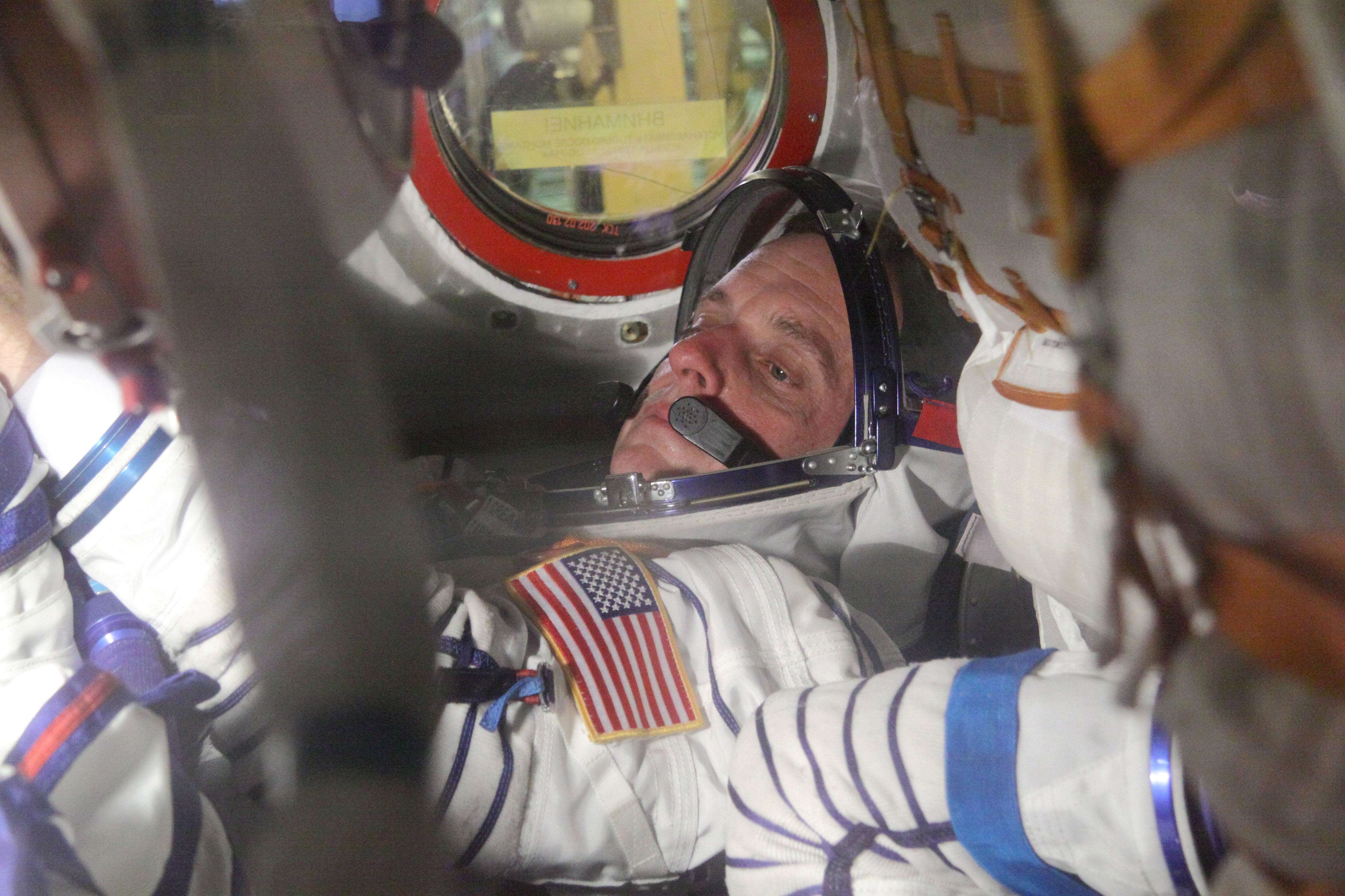 At the Baikonur Cosmodrome in Kazakhstan, U.S. Army Soldier and NASA flight engineer Col. Timothy J. Creamer checks out the systems inside the Soyuz TMA-17 spacecraft during a dress rehearsal at the launch site Dec. 10, 2009 in preparation for the Dec. 21 launch to the International Space Station. Creamer will launch with Soyuz Commander Oleg Kotov and Flight Engineer Soichi Noguchi of the Japan Aerospace Exploration Agency for a six-month stay on the complex. They will join Expedition 22 commander Col. (Ret.) Jeffrey Williams of NASA and Russian cosmonaut Maxim Suraev, who have been on the station since October. See more at